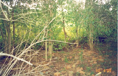 Government Depot Site, Rooty Hill: View showing broken bricks and other archaeological deposits beneath the vegetation growing over the house site